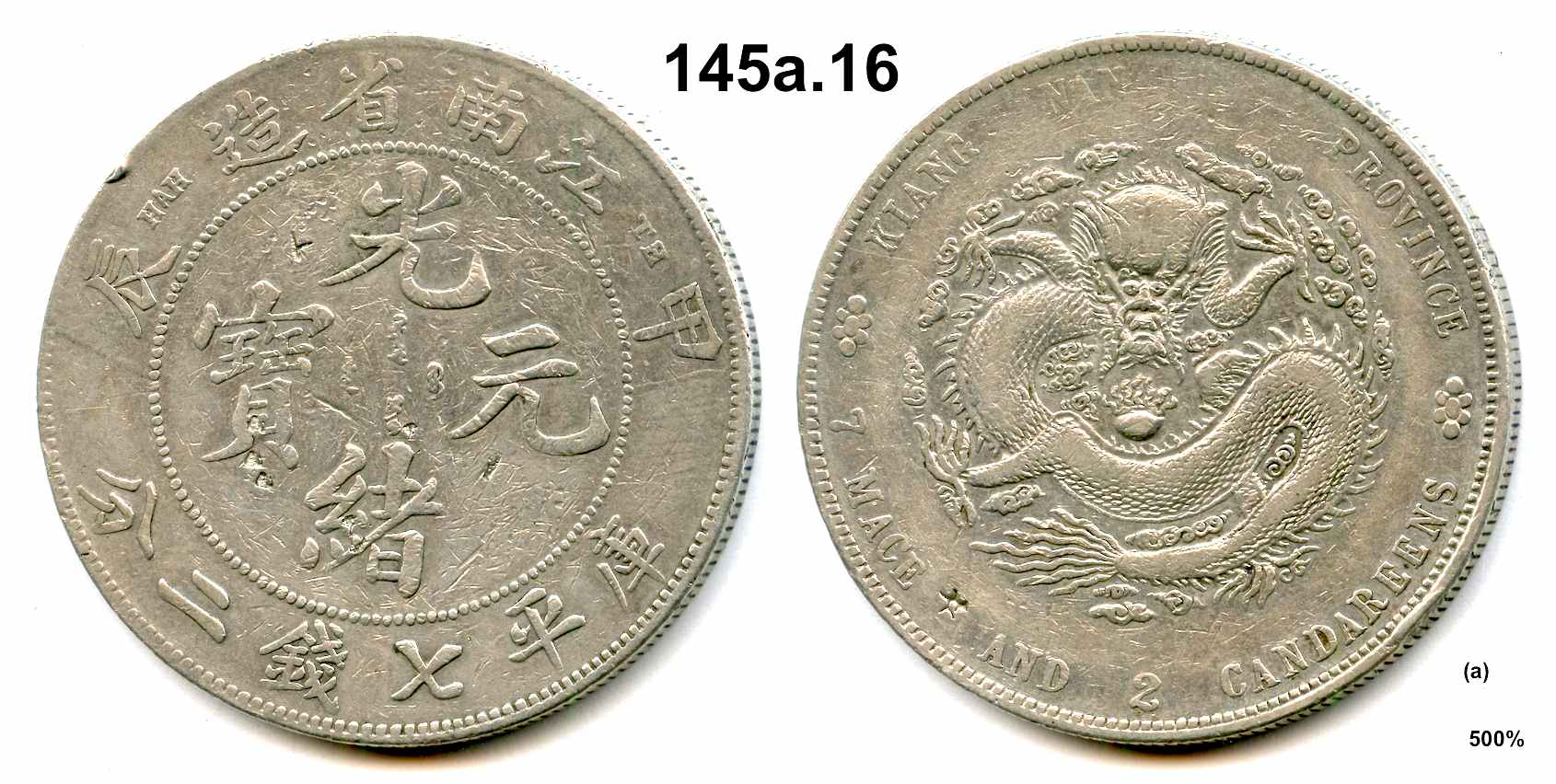 145a.16 Dollar, CD1904, Kuanag-hsu, Dragon, Variety: HAH TH LM256 F+, lt. scs, chops $225.00 Vy.